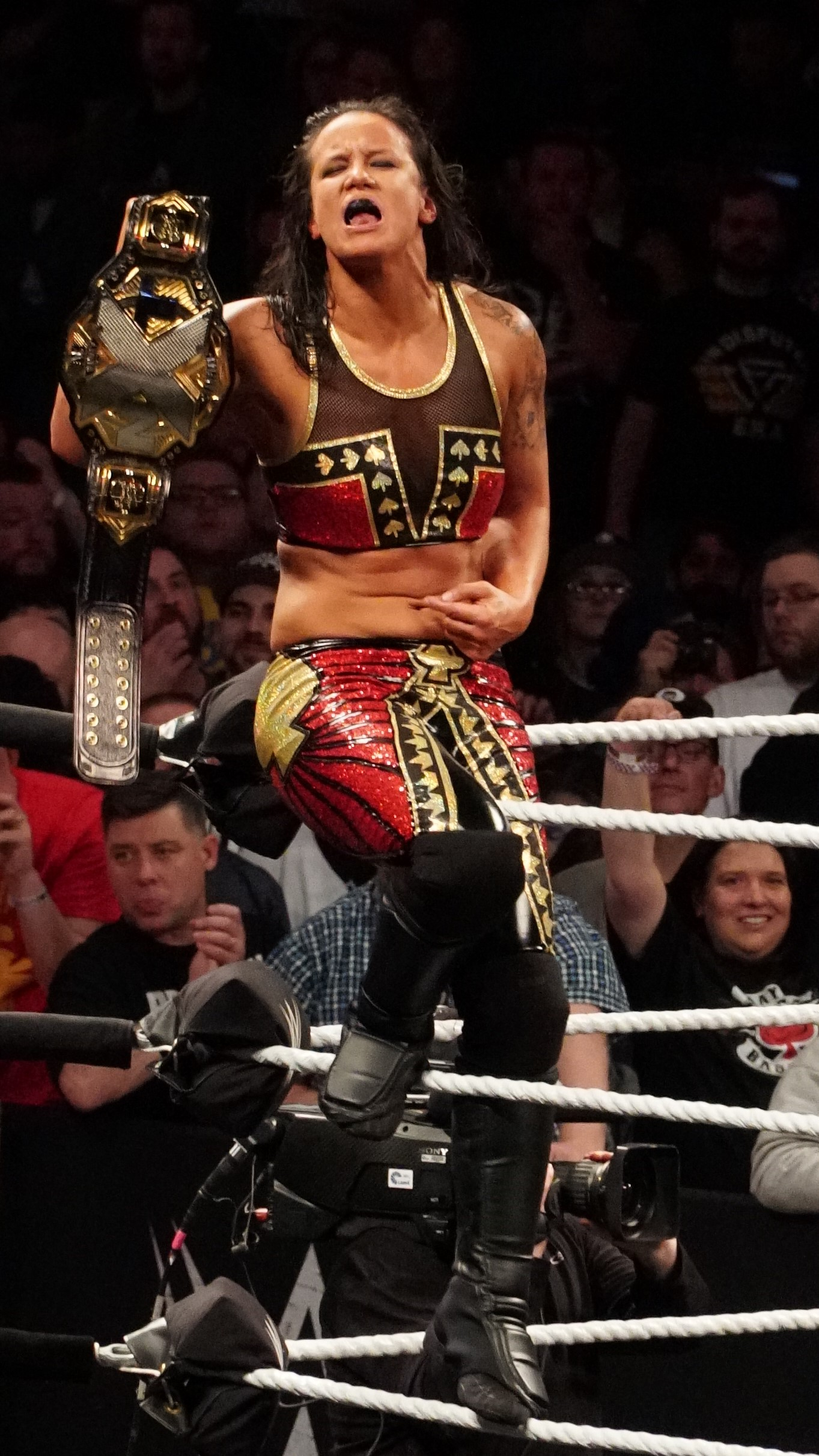 Shayna Baszler after winning the NXT women's title at NXT TakeOver: New Orleans in April 2018.